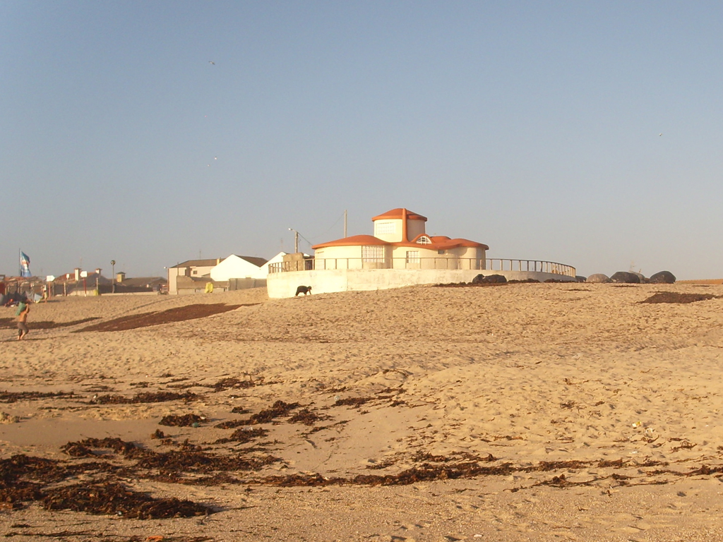 Sargaceiros (Seaweed gatherers) at Esteiro Beach near the windmill of Luisa Dacosta (writer) in Póvoa de Varzim